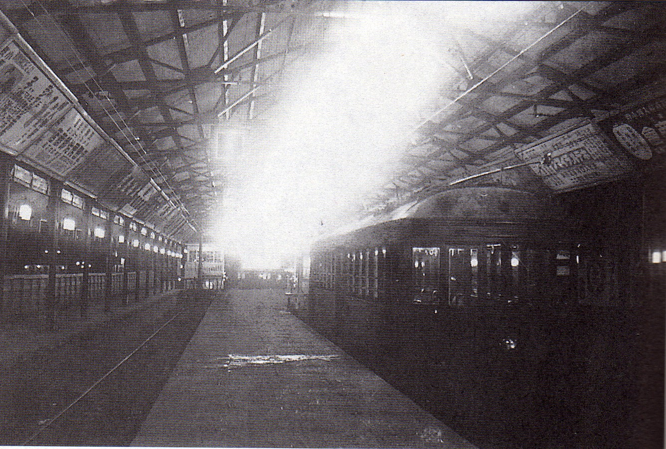 Takimichi station(Kobe station) Hanshin Railway in 1912. The station was the terminal Hanshin railway in Kobe city until current San'nomiya station was opened.